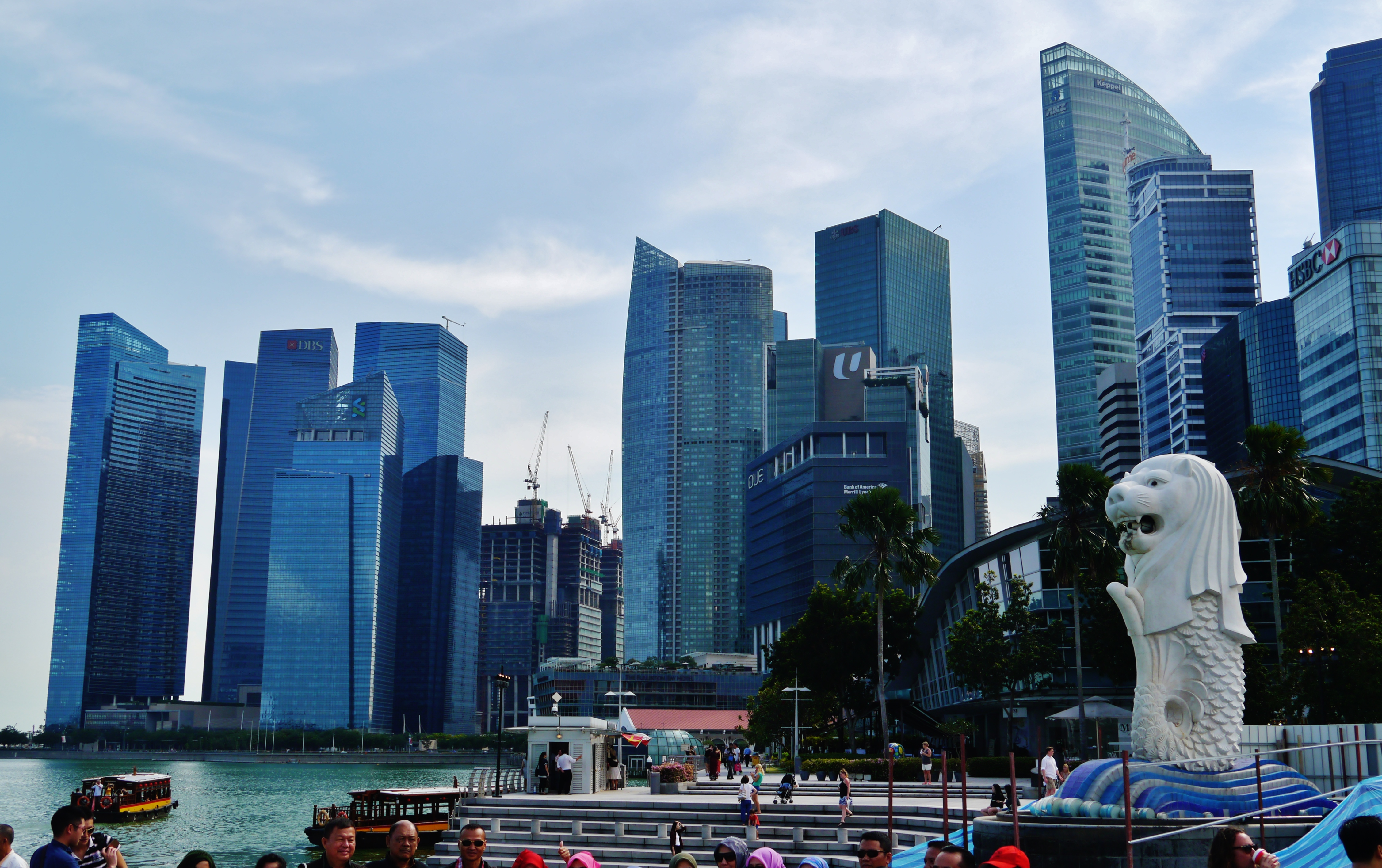 Marina Bay, Singapore